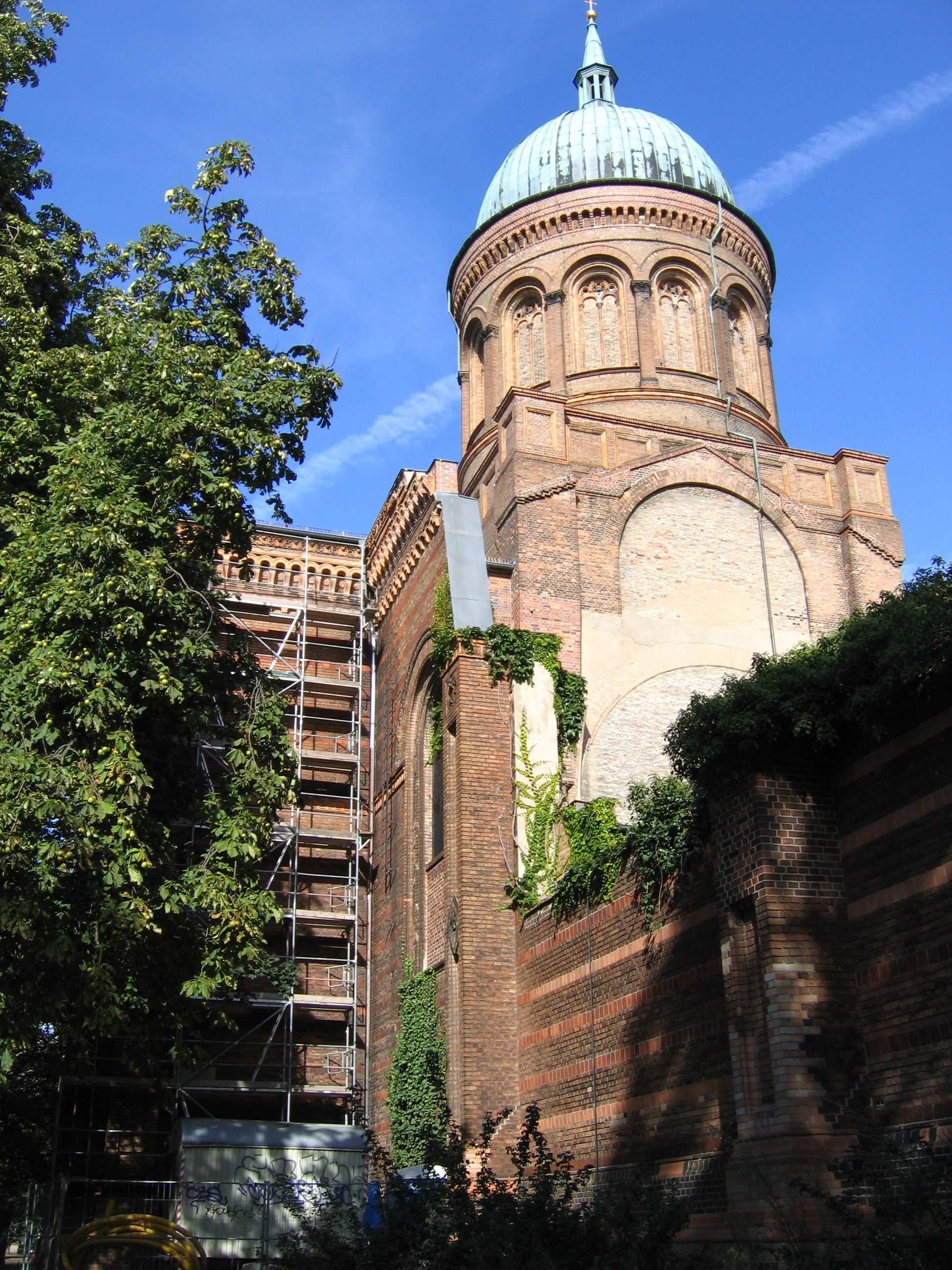 The Saint Michael church (Sankt Michaelskirche) in Berlin, seen side with the cupola and without roof